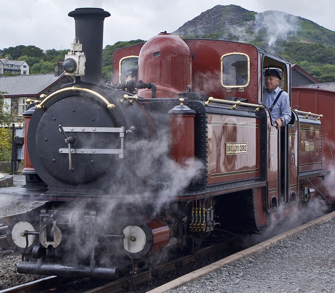 Ffestiniog Railway locomotive David Lloyd George departing Porthmadog Harbour railway station.